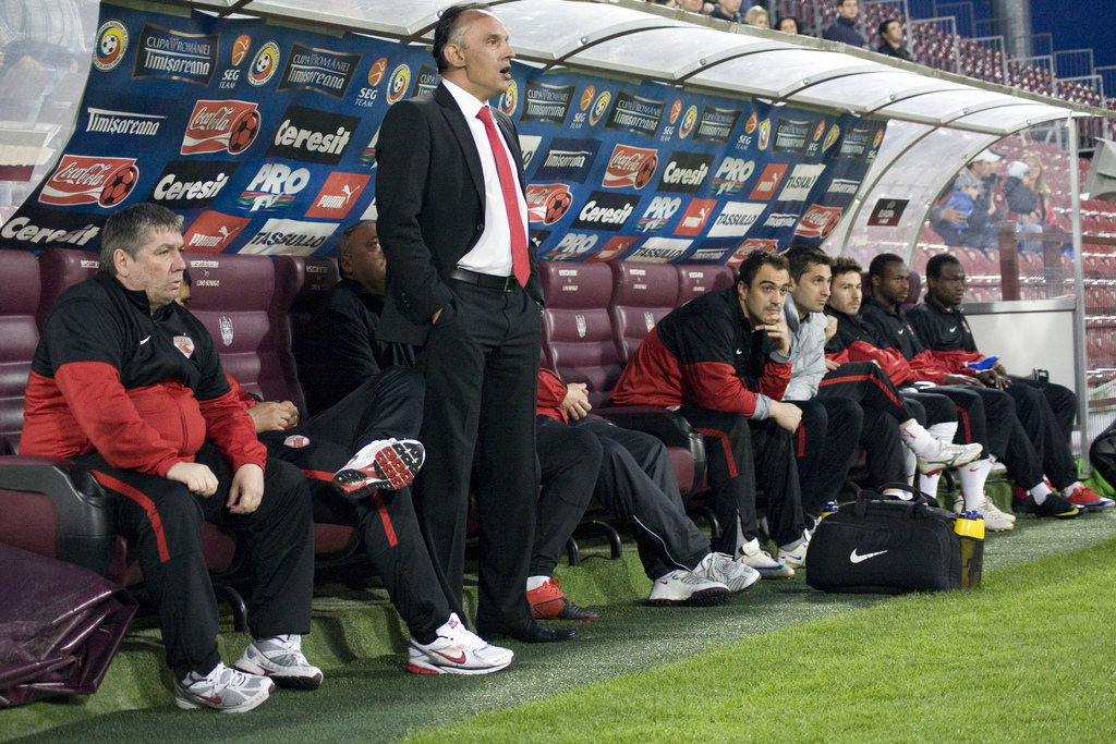 Dinamo Bucharest at 2009 Romanian Cup semifinal (CFR Cluj - Dinamo Bucuresti 2-1)